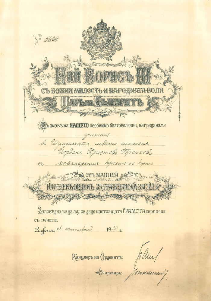 Yordan Trenkov's People's Order for Civic Merit